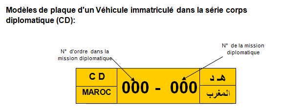 Plaque diplomatique marocaine C.D